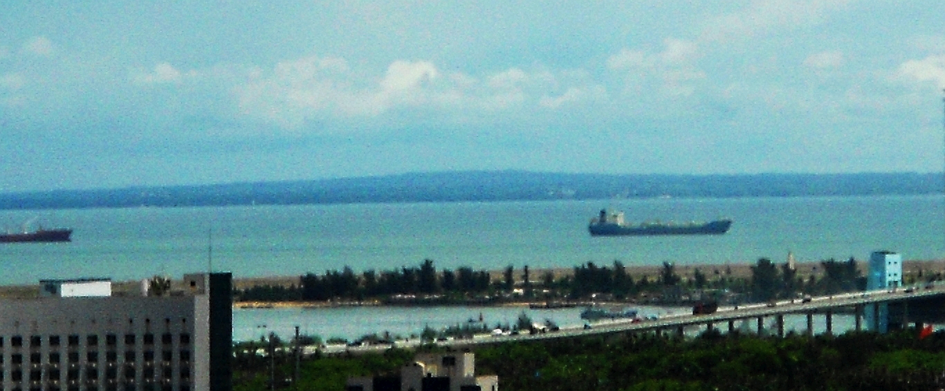 Qiongzhou Strait with Leizhou Peninsula in background. Photo taken from Haikou, Hainan, China.